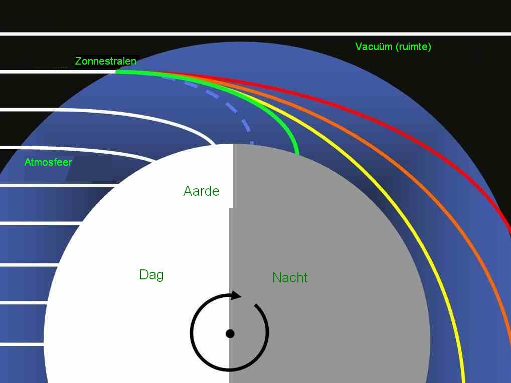 Dutch image about the formation of a Green Flash